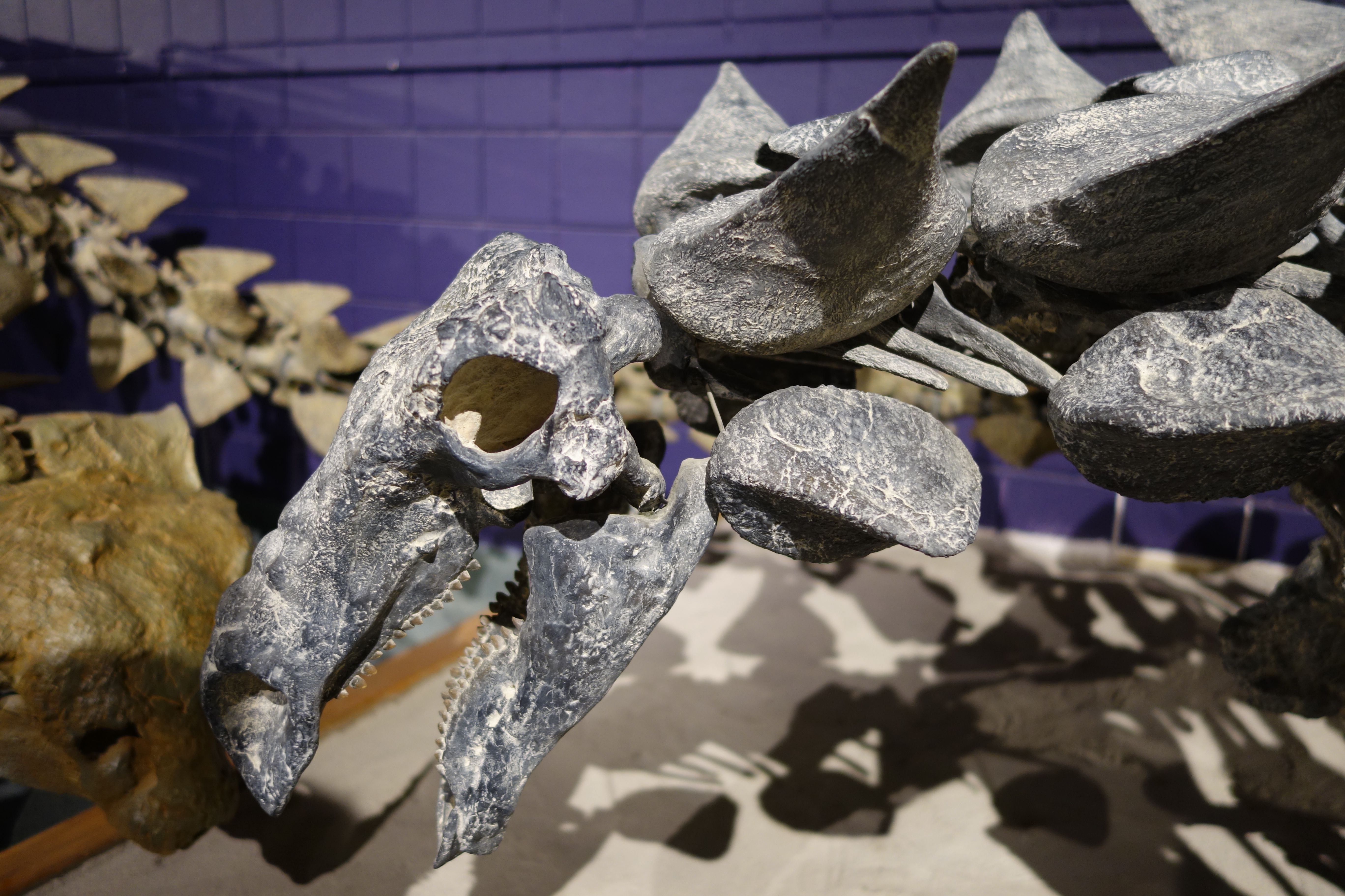 Skeletal cast of Animantarx ramaljonesi, detail of skull. On display at the USU Eastern Prehistoric Museum, Price, Utah (US).